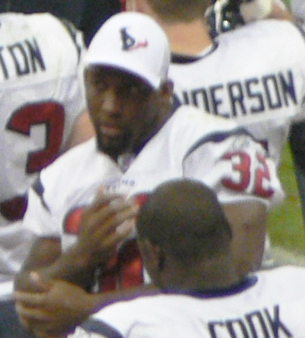 Houston Texans running back Antowain Smith during a 2006 preseason game.